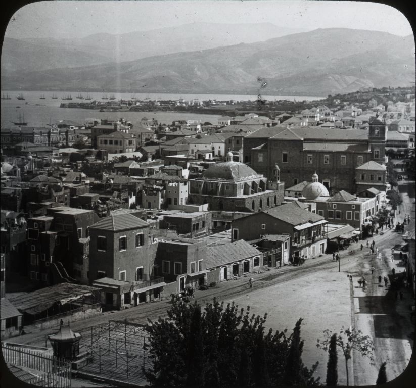 Image Title: City of Beyrout Image Description from historic lecture booklet: "The city of Beyrout was formerly called Berytus. It was named after Julia Augusta Felix Berytus, the daughter Emperor Augustus. It has about 120,000 inhabitants 38 Christian churches. The Christian element is growing stronger every year. Being the most important city on the Syrian coast of the Mediterranean, it is quite natural that it should become the center of missionary work." Original Format: Lantern slides Original Collection: Visual Instruction Department Lantern Slides Item Number: P217:set 010 xxx Restrictions: Permission to use must be obtained from the OSU Archives. Click here to view The Best of the Archives. Click here to view Oregon State University's other digital collections. We're happy for you to share this digital image within the spirit of The Commons; however, certain restrictions on high quality reproductions of the original physical version may apply. To read more about what “no known restrictions” means, please visit the OSU Archives website.